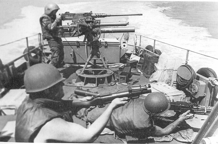 Crew of a Fast Patrol Craft (PCF, Swift boat) engaging